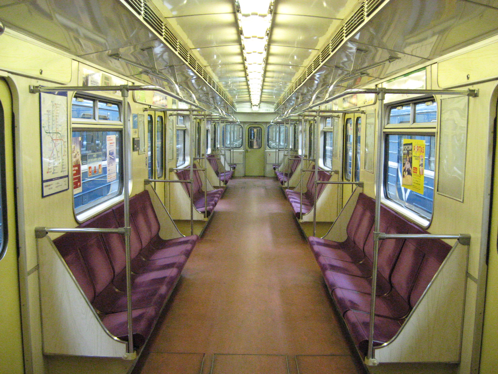 Interior of 81-541 subway cars in Saint Petersburg, Russia